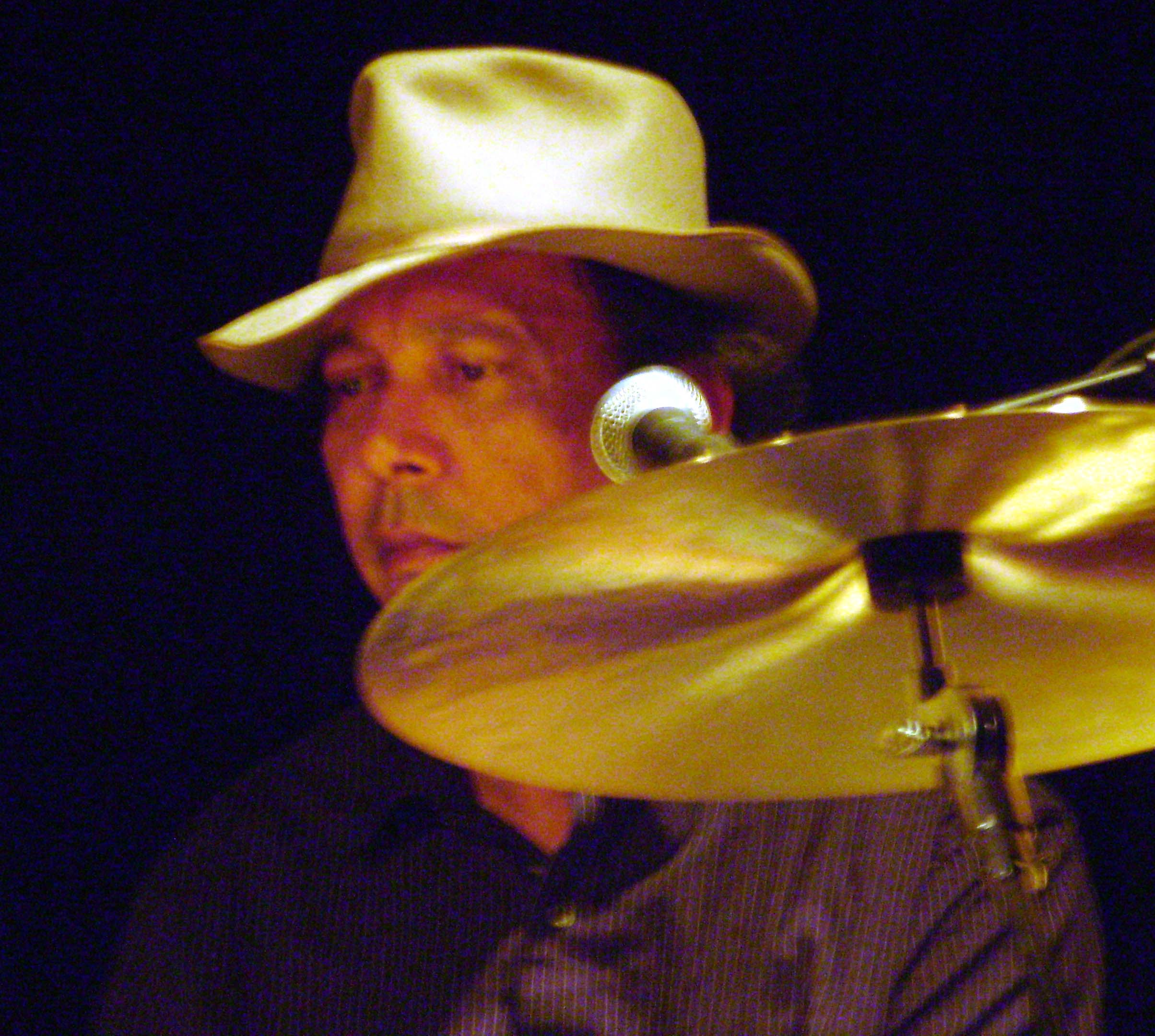 Ricky Fataar at a concert with John Scofield, Treibhaus Innsbruck 2008